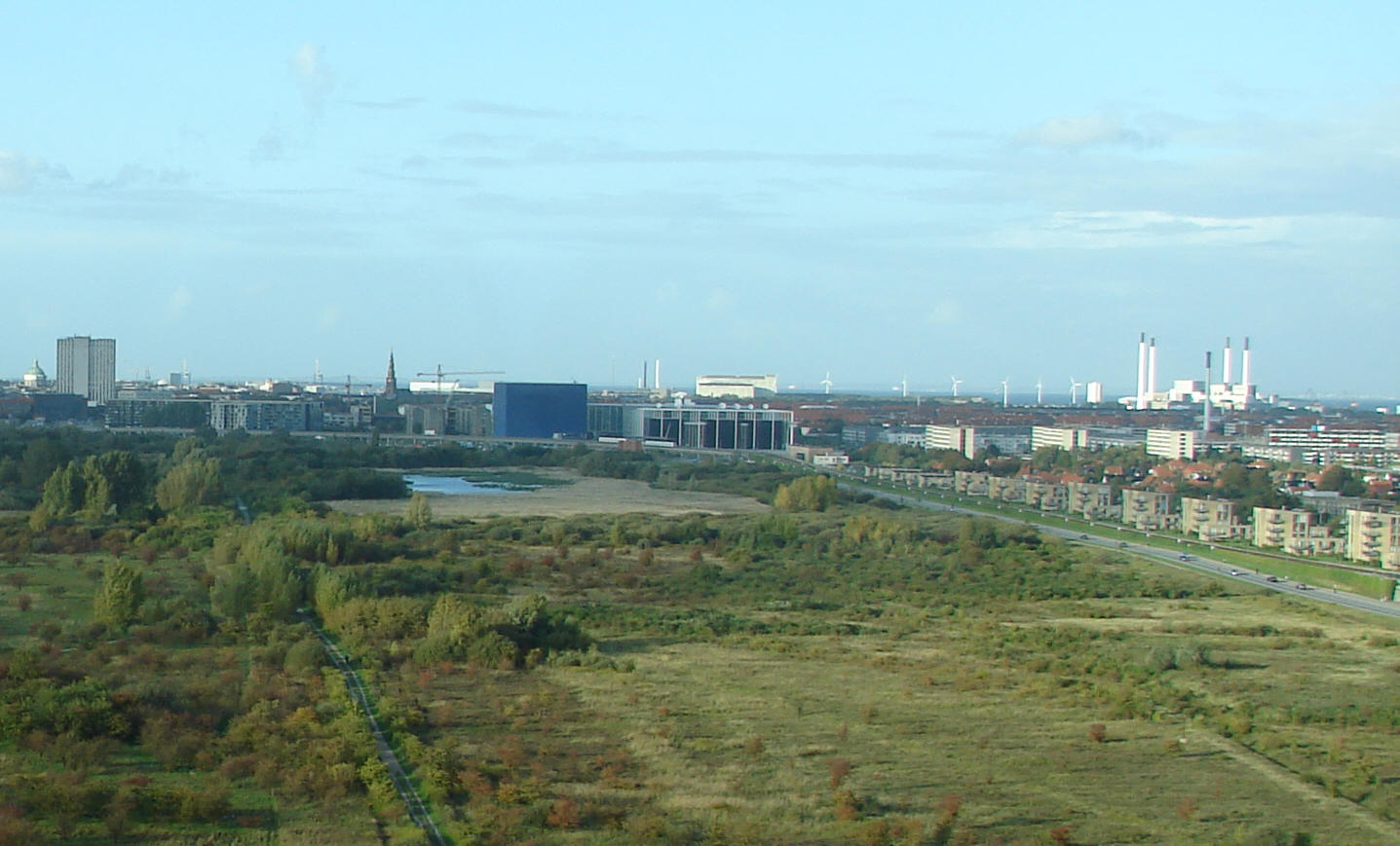 View at Copenhagen city part "Amager Vest".